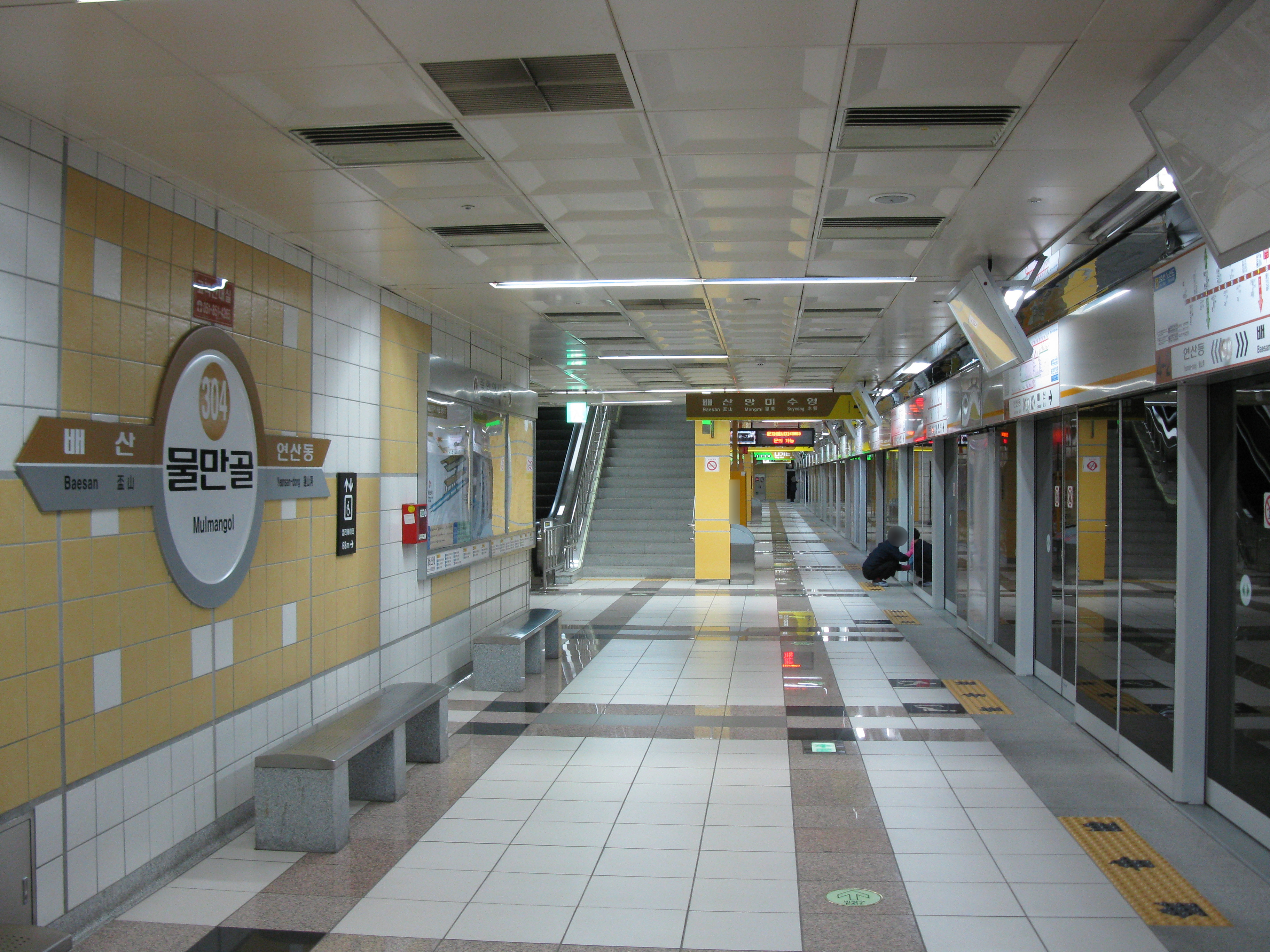 A platform of Mulmangol Station, Busan Subway Line 3